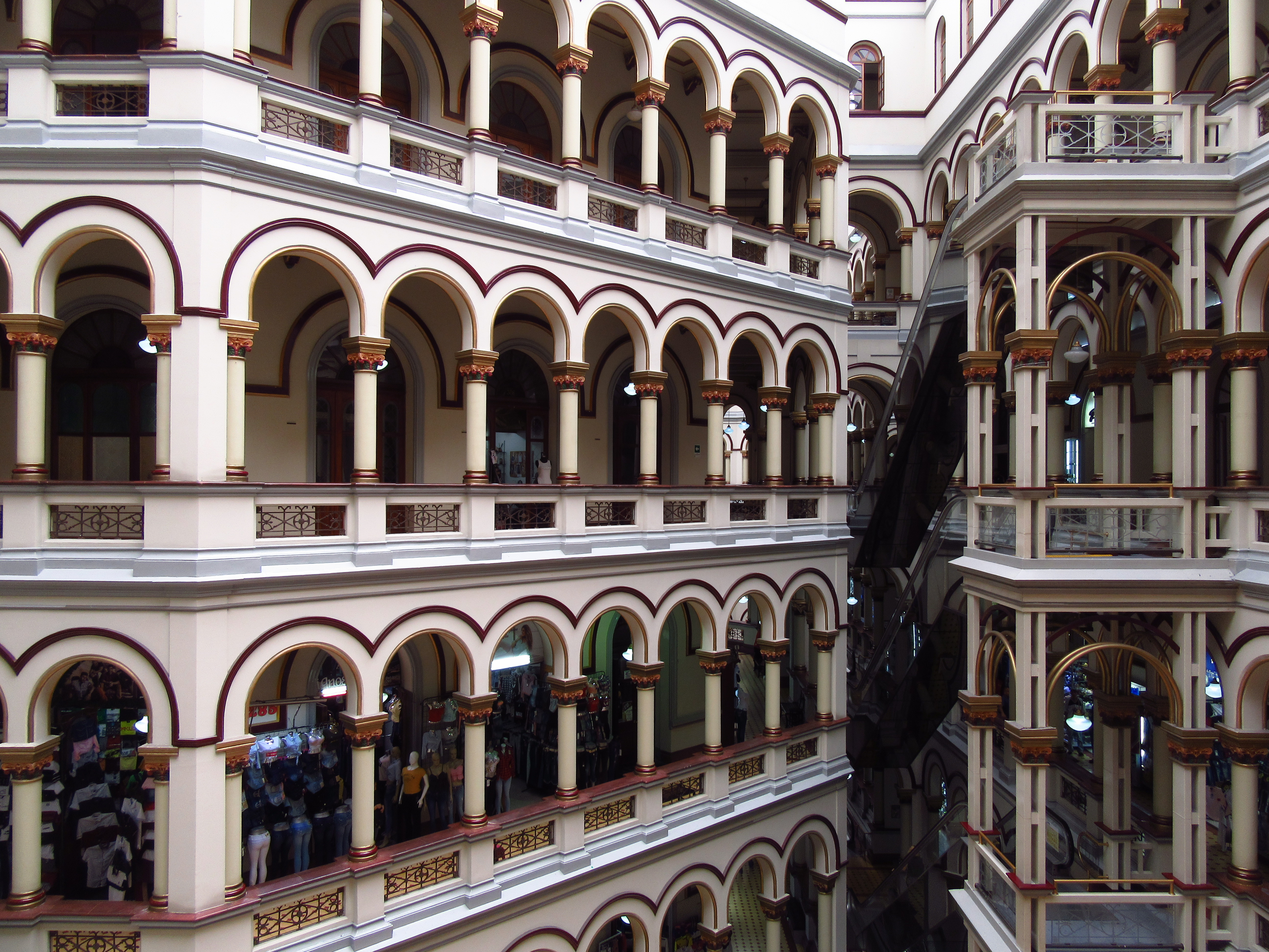 Medellín